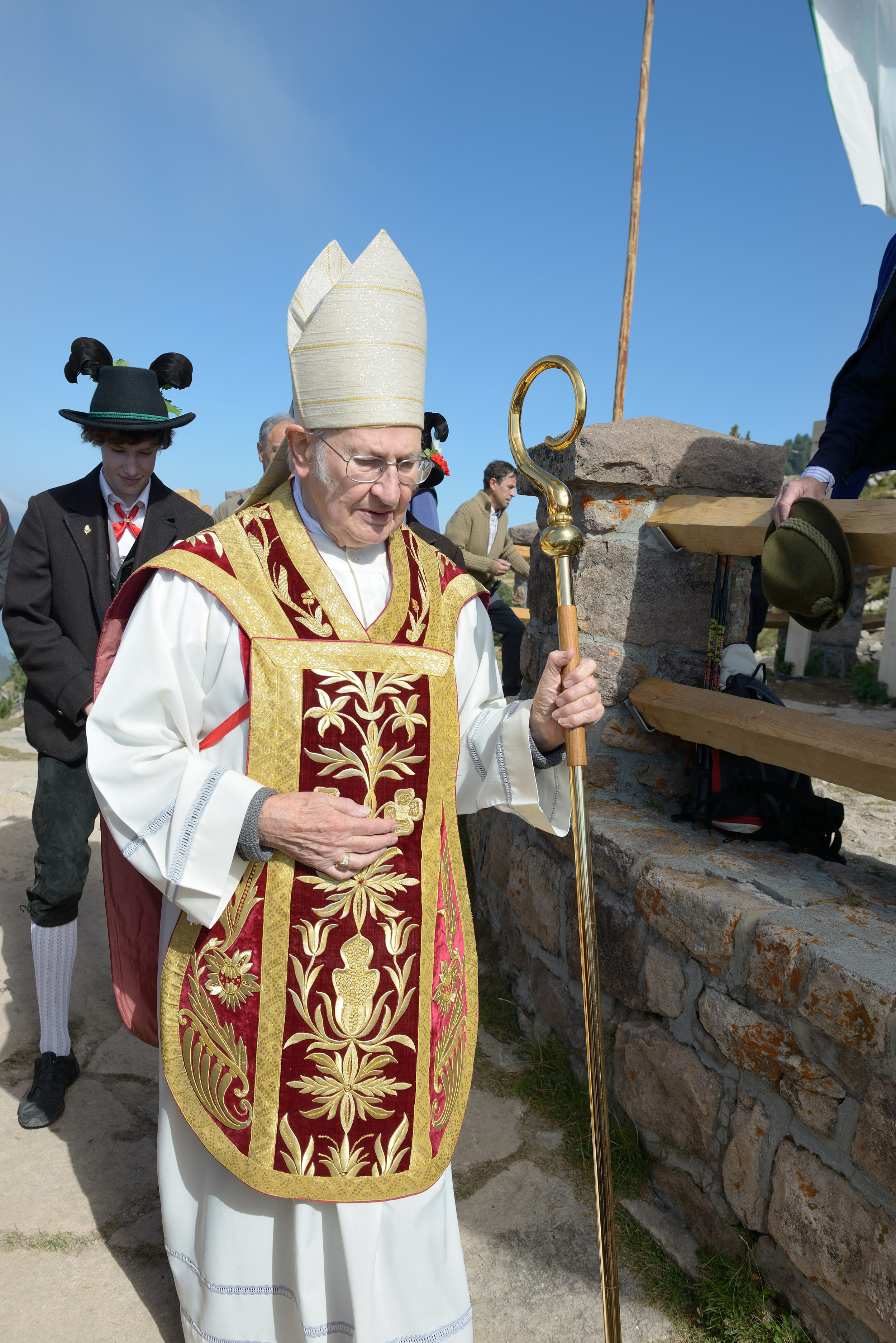 Abbot Chrysostomus Giner